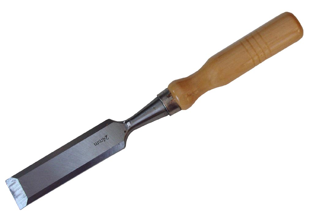 chisel wood Photographer Isabelle Grosjean ZA Date 2001-09-13 License GFDL-self Camera Sony PSC-P92 Za